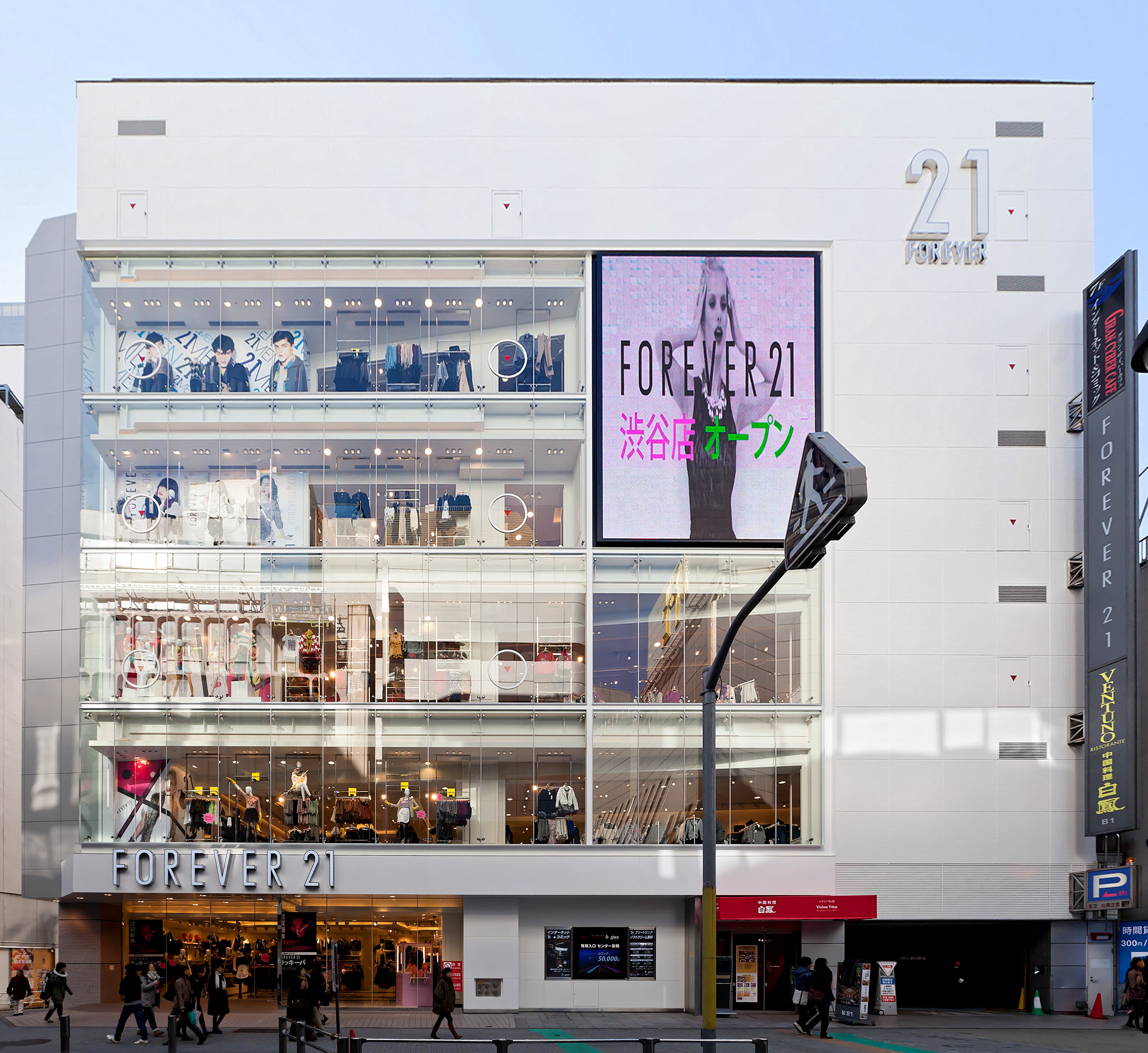 Forever 21 in Shibuya, Tokyo